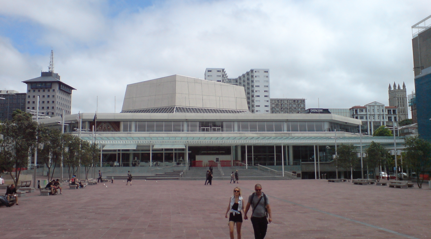 Aotea Centre in Auckland, New Zealand. Looking northwest over the remodelled Aotea Square, onto the wider stairs and the cafe opening onto the square.